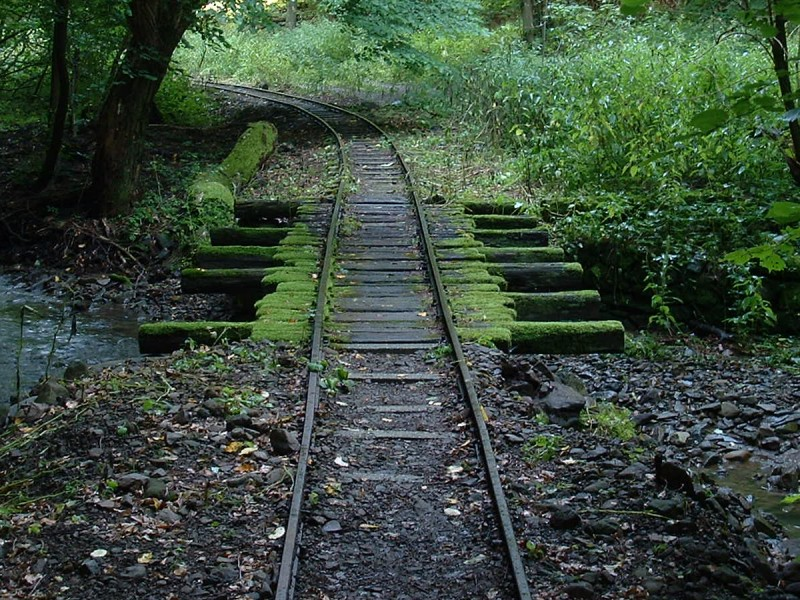 600 mm gauge railway track in bridge, Kemencei Erdei Múzeumvasút (Kemence Museum Forestry Railway), Kemence, Pest county, Hungary